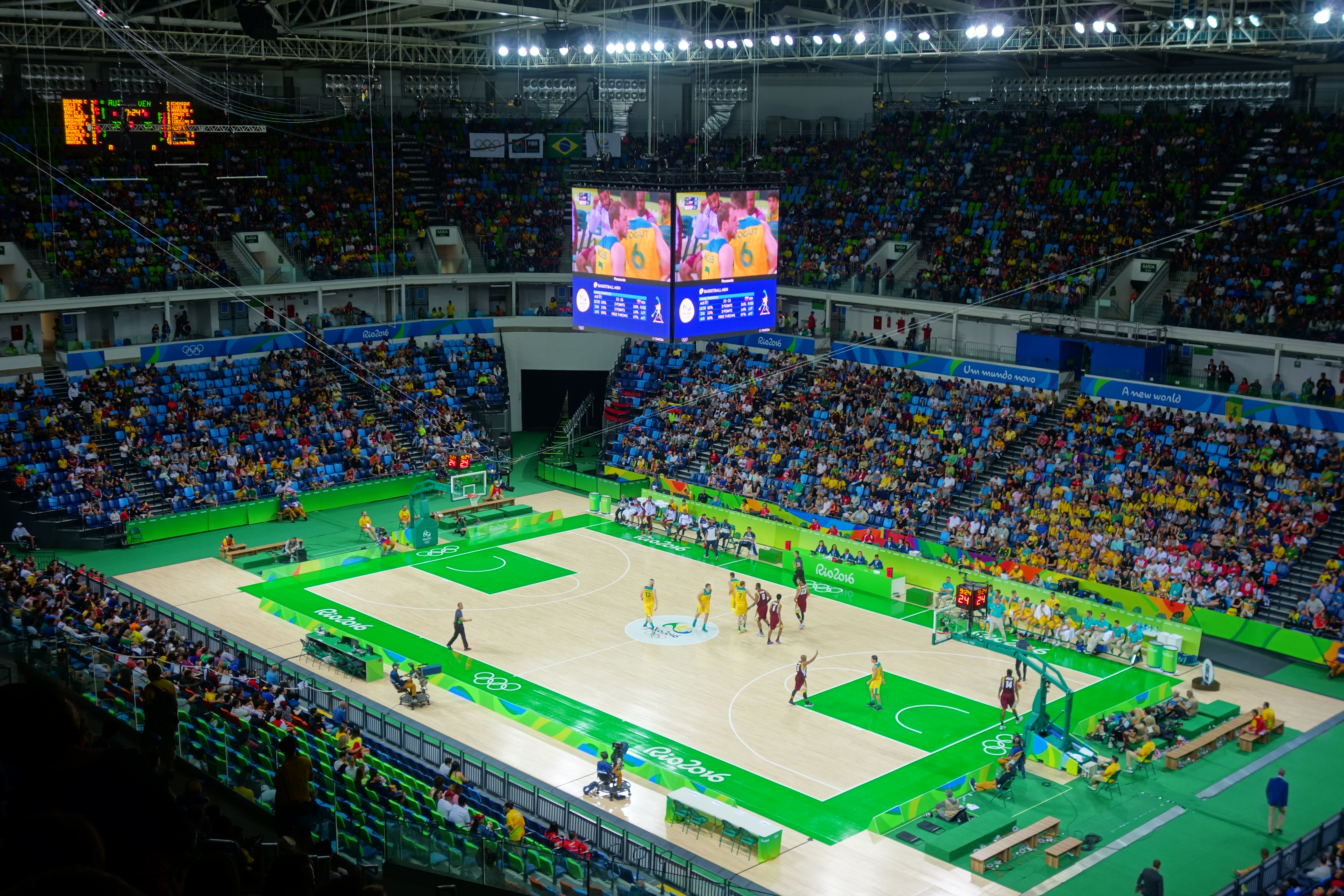 Australia x Venezuela, men's tournament in basketball at the 2016 Olympic Games in Rio de Janeiro.